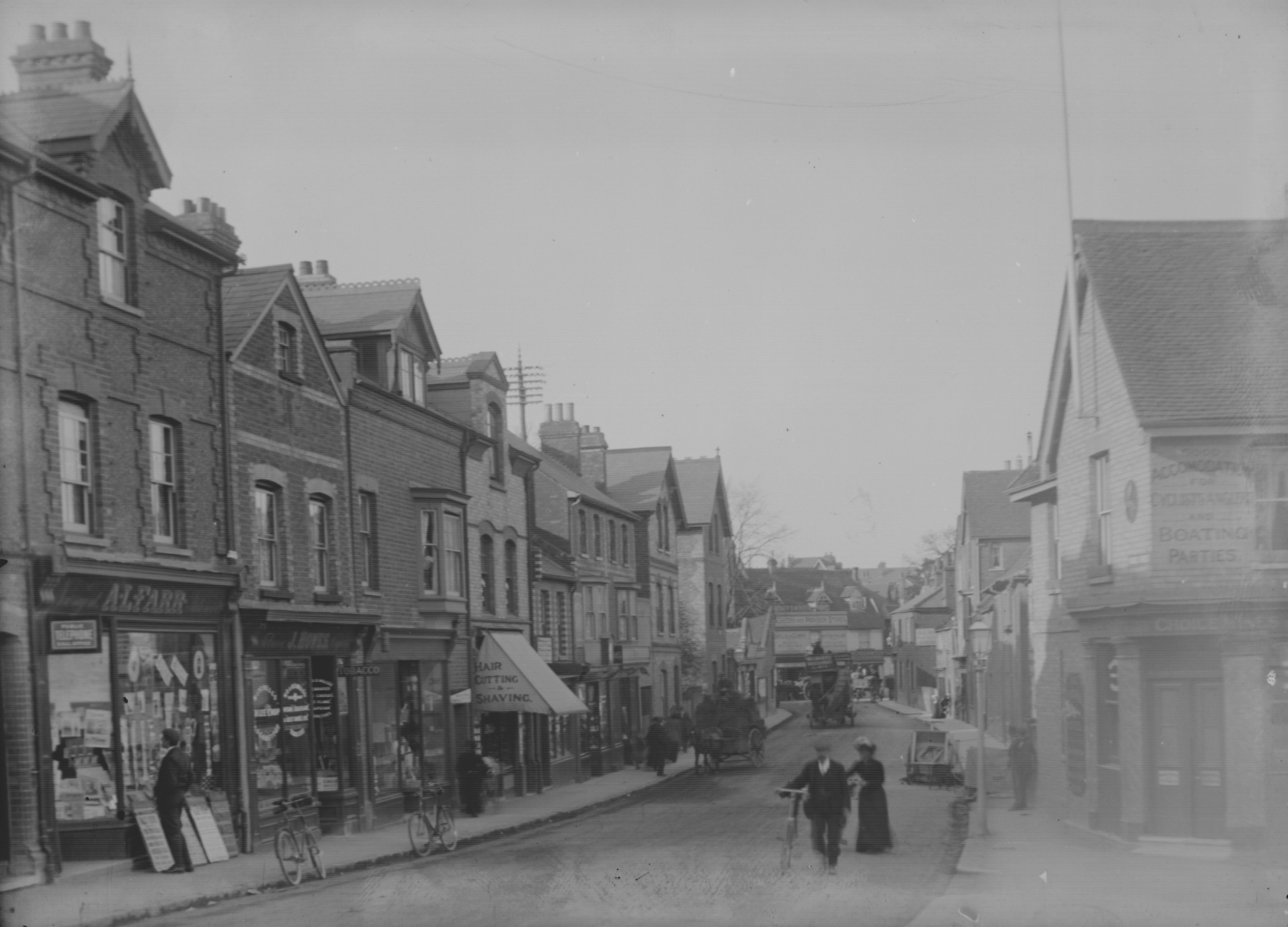 Bridge Street, Caversham, looking northwards, c. 1905. On the left, at No. 6, Arthur Farr, newsagent and stationer; No. 8, James Howes, tobacconist. On the right, The Crown Inn. 1900-1909 : glass negative by H. W. Taunt, Box 15, un-numbered 8.